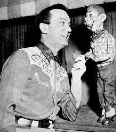 Disk Jockey Ted Brown as Bison Bill filling in for Buffalo Bob Smith on the Howdy Doody television program.